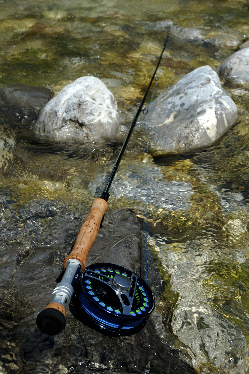 fly fishing rod